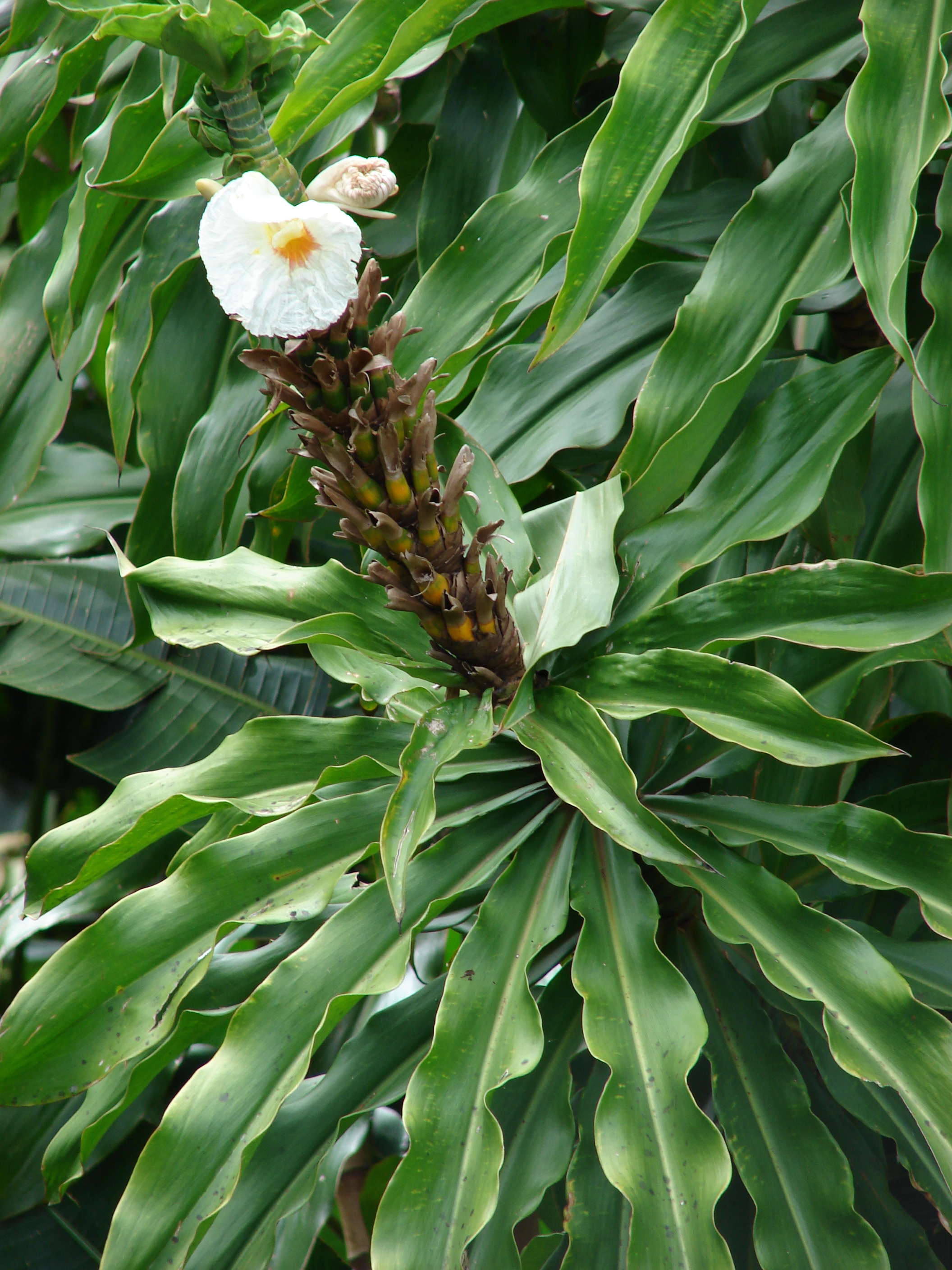 Costus speciosus (flowering habit). Location: Maui, Hana Hwy